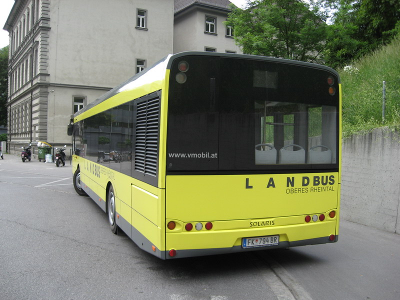 Solaris Urbino 12 bus in Feldkirch, Austria.